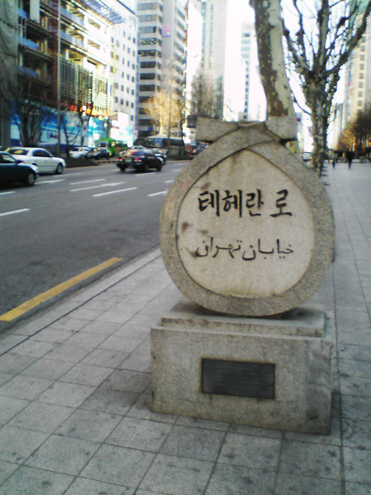 파일의 설명 (description) A post at Tehran Road, Seoul Korea. It says "Tehran Road" both in Korean (테헤란 로) and Persian (خیابان تهران).